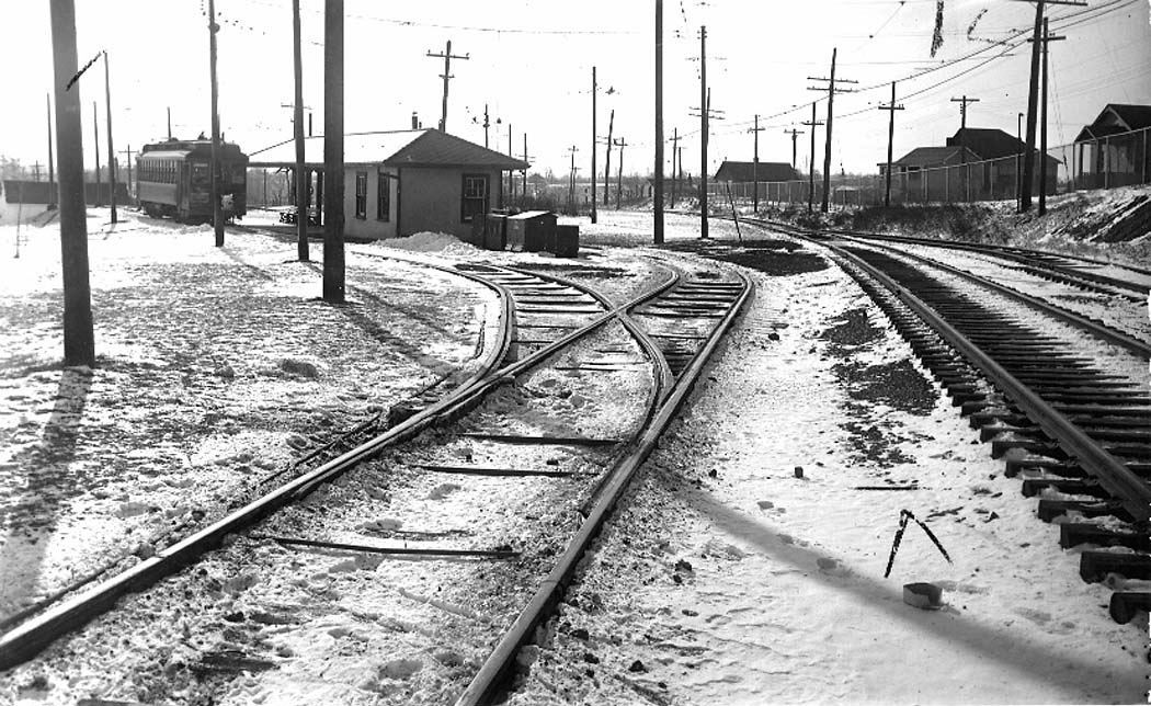 Looking west to Long Branch Loop on Lake Shore Rd (now Boulevard) north side at Brown's Line, western limits of New Toronto TEXT: "Long Branch Loop, looking west (Port Credit car on the left making last trip 1.30 a.m. Feb. 10 1935.)"